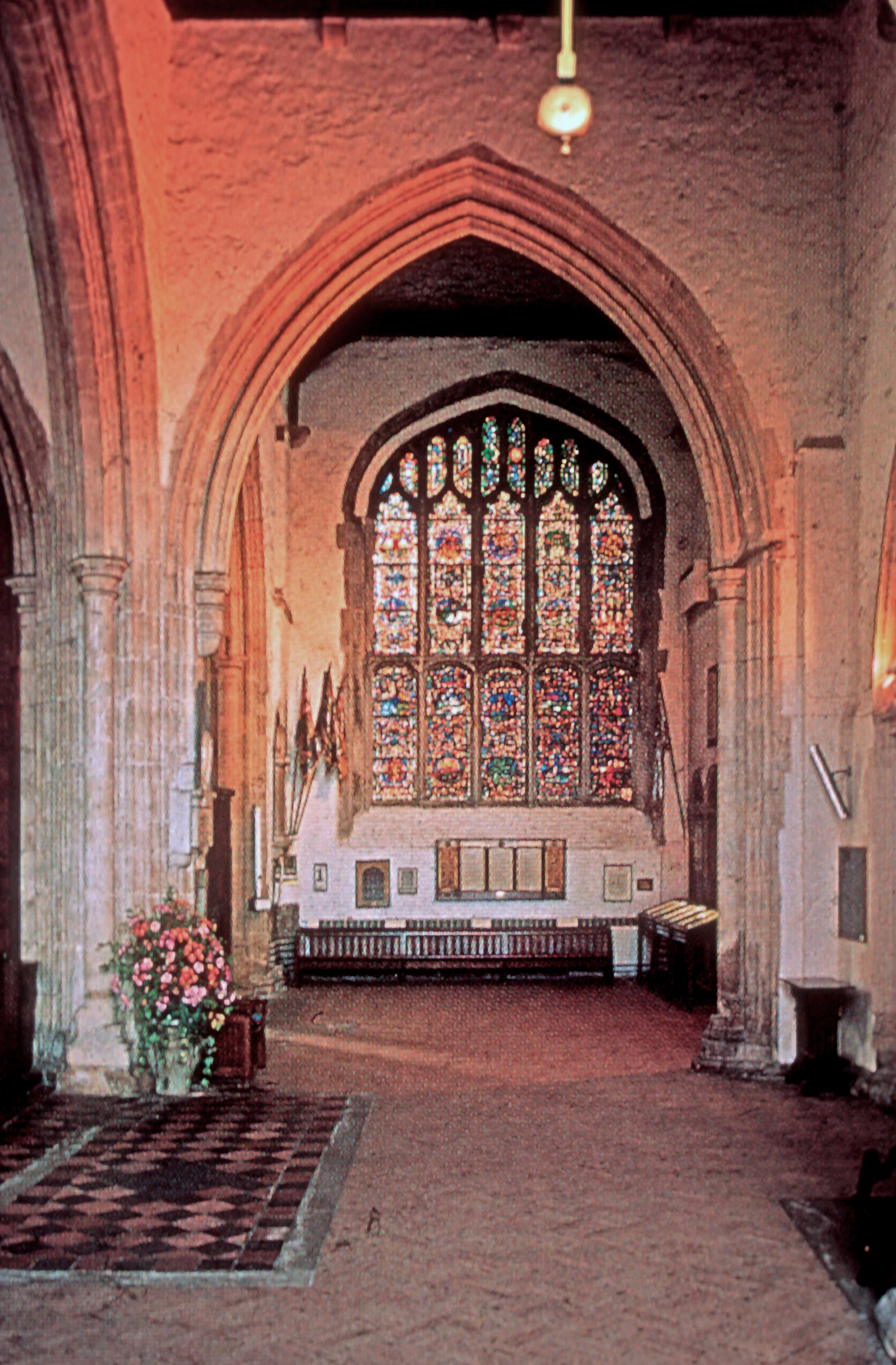 INTERIOR OF THE CHURCH WITH THE BENEDICTINE WINDOW AND THE FAMOUS PENDULUM AT THE TOP OF THE PICTURE